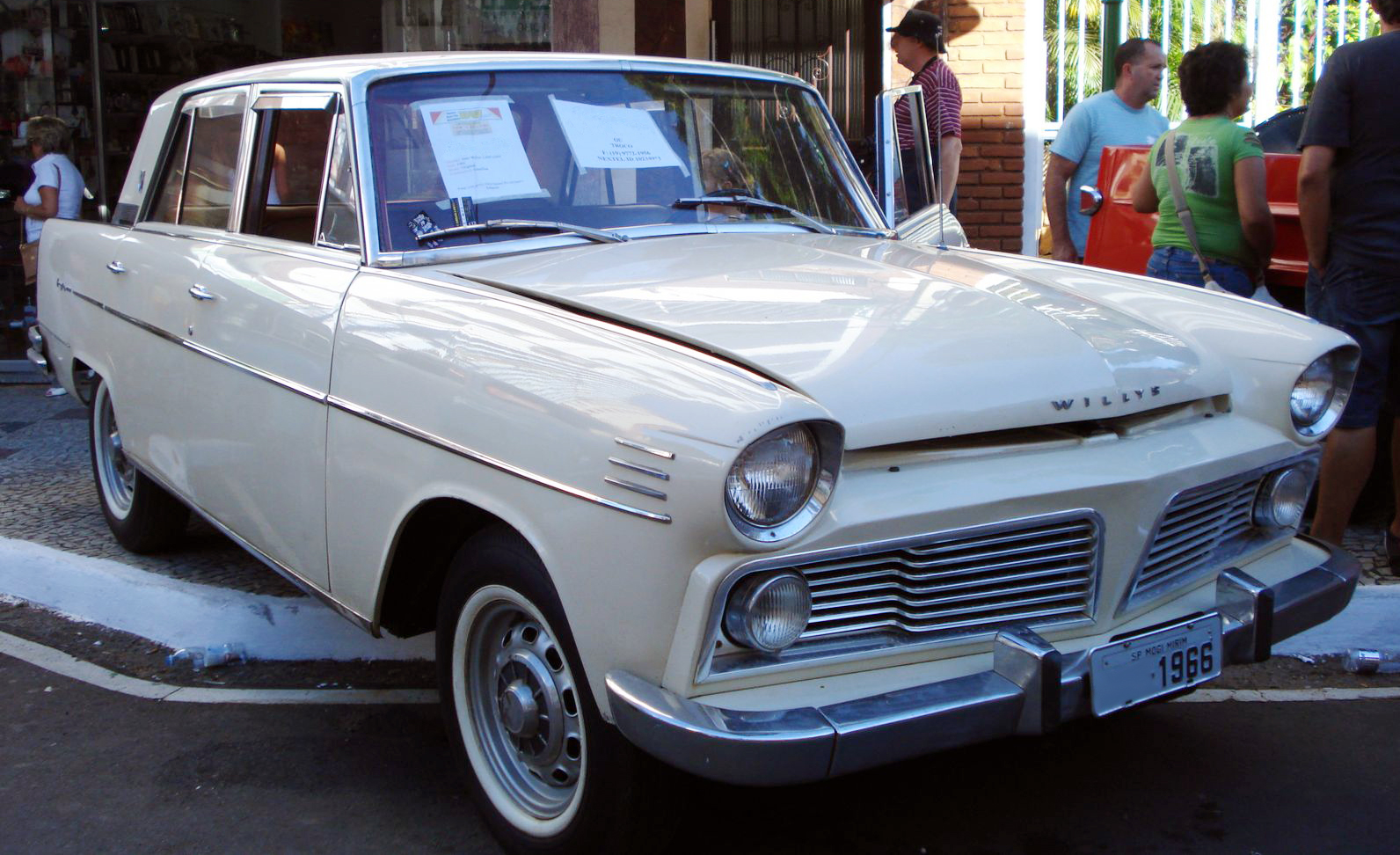 1966 Aero Willys Itamaraty